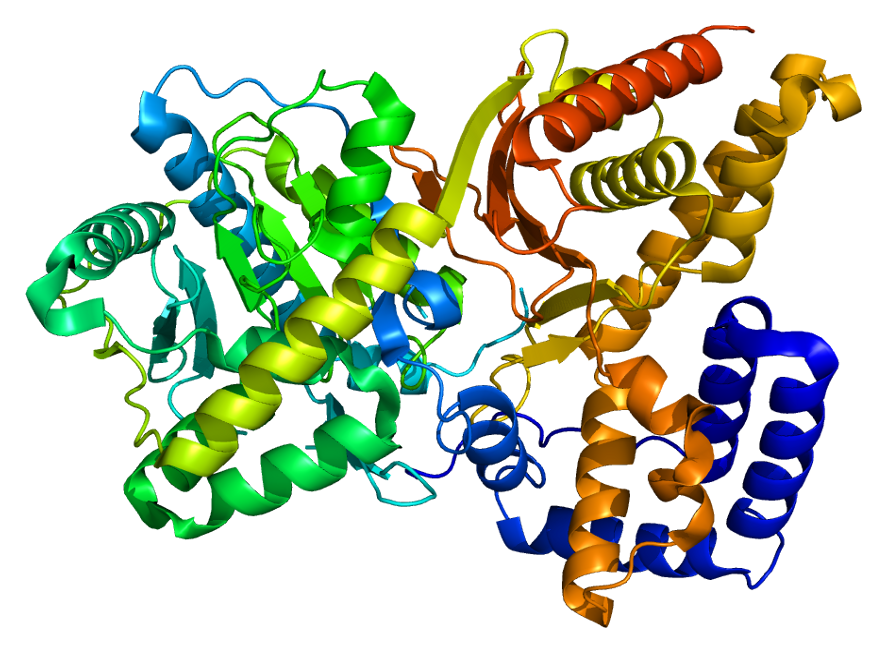 Structure of the CHAT protein. Based on PyMOL rendering of PDB 2fy2.